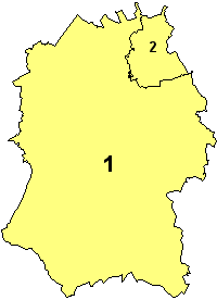 Unitary Authorities in the Ceremonial County of Wiltshire, effective 1st April 2009. 1. Wiltshire Council 2. Swindon